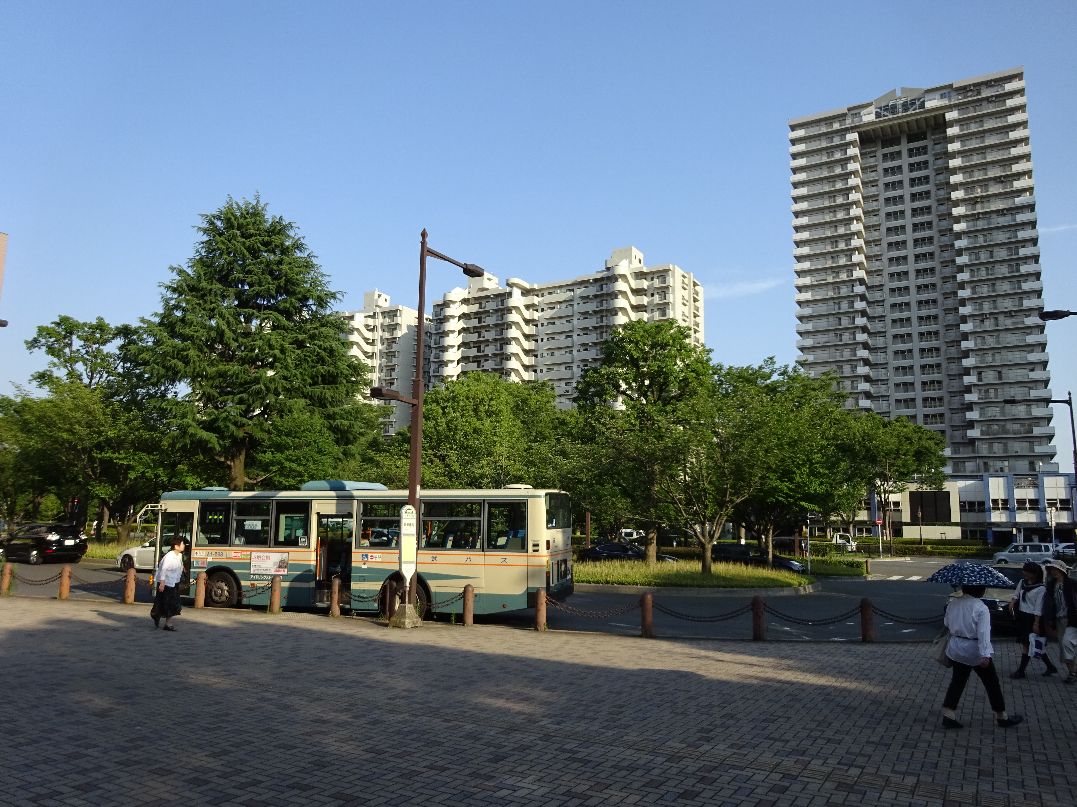 Station square of Hikarigaoka Station